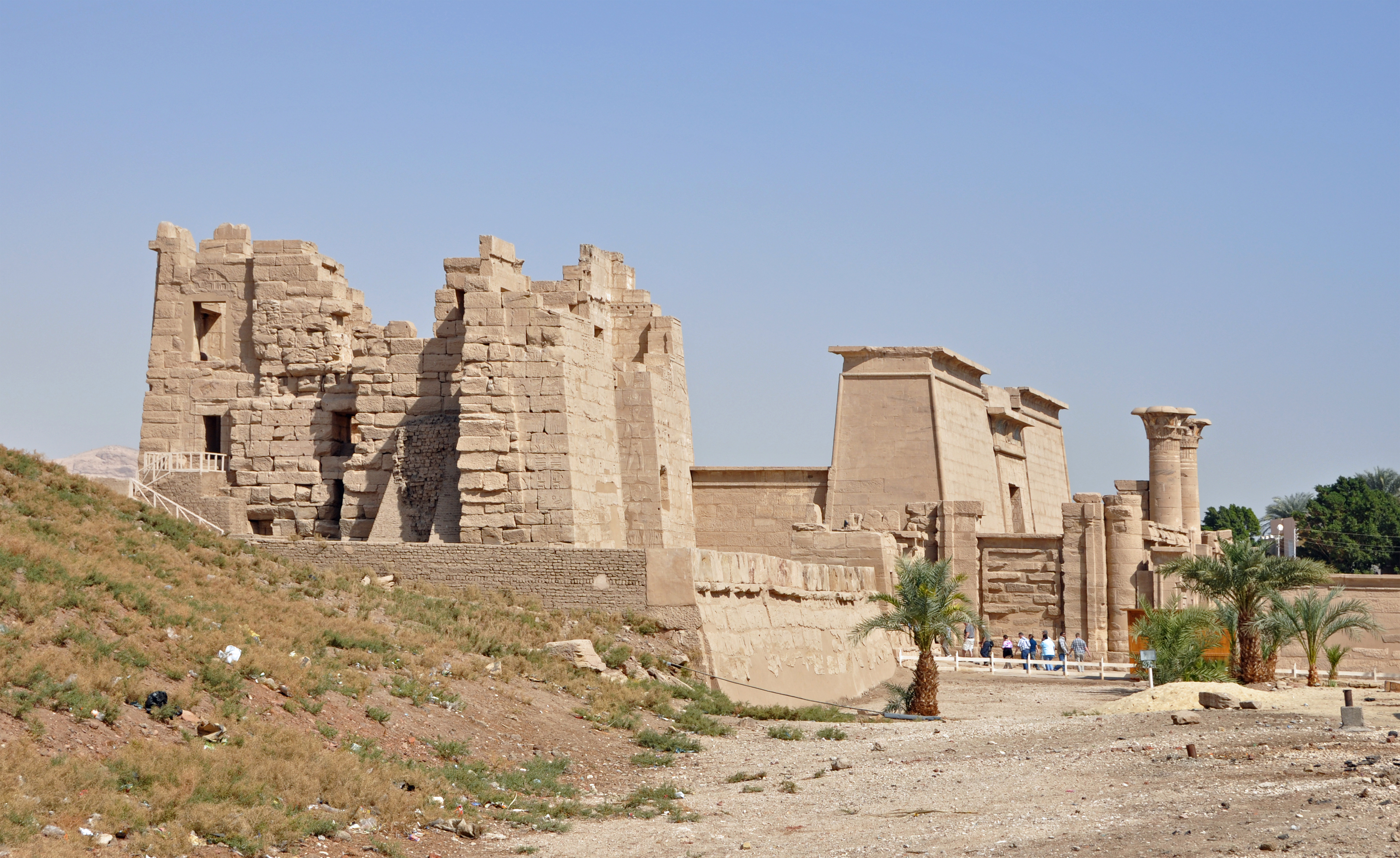 Medinet Habu Temple (Egypt)